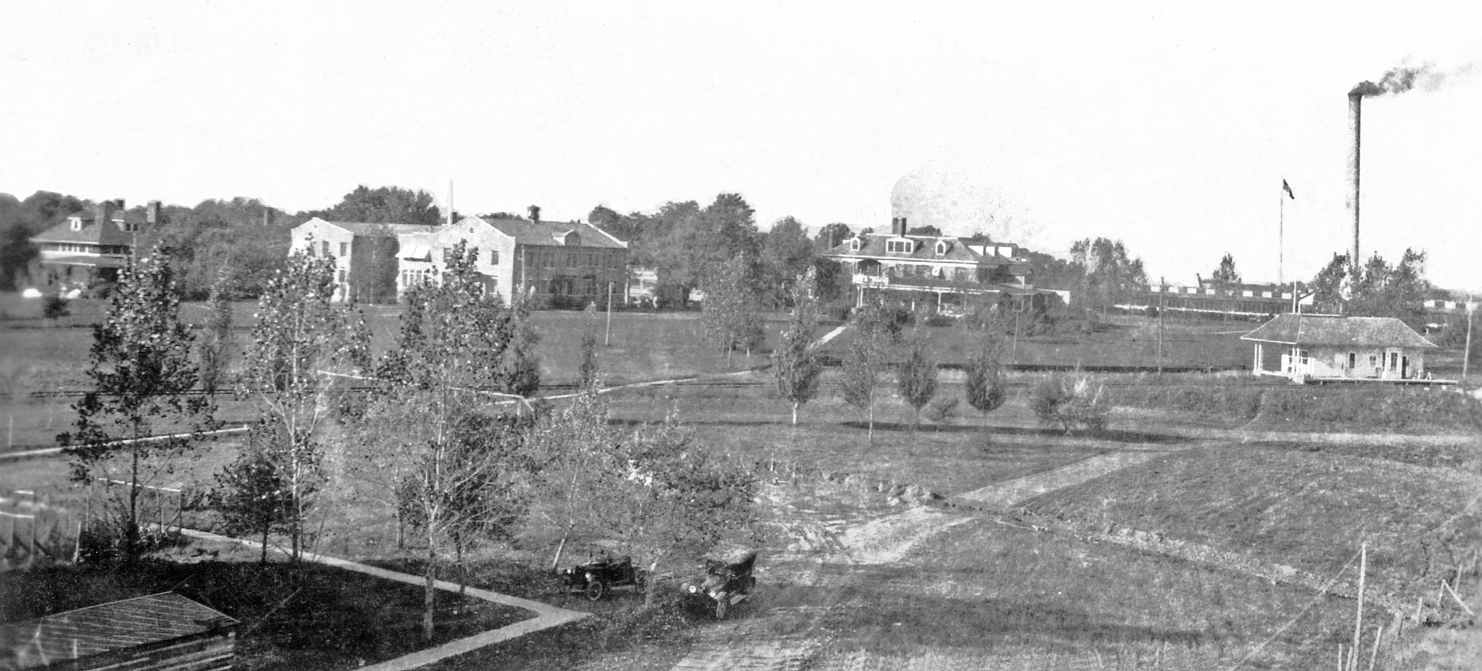 Snapshot image taken during summer or fall 1928 by deceased patient is currently in private history library collection of Bob Hibbs. The largest building immediately left of the center of this image still exists, displaying a large Lorraine Cross of grey limestone in the brickwork at the upper floor level.